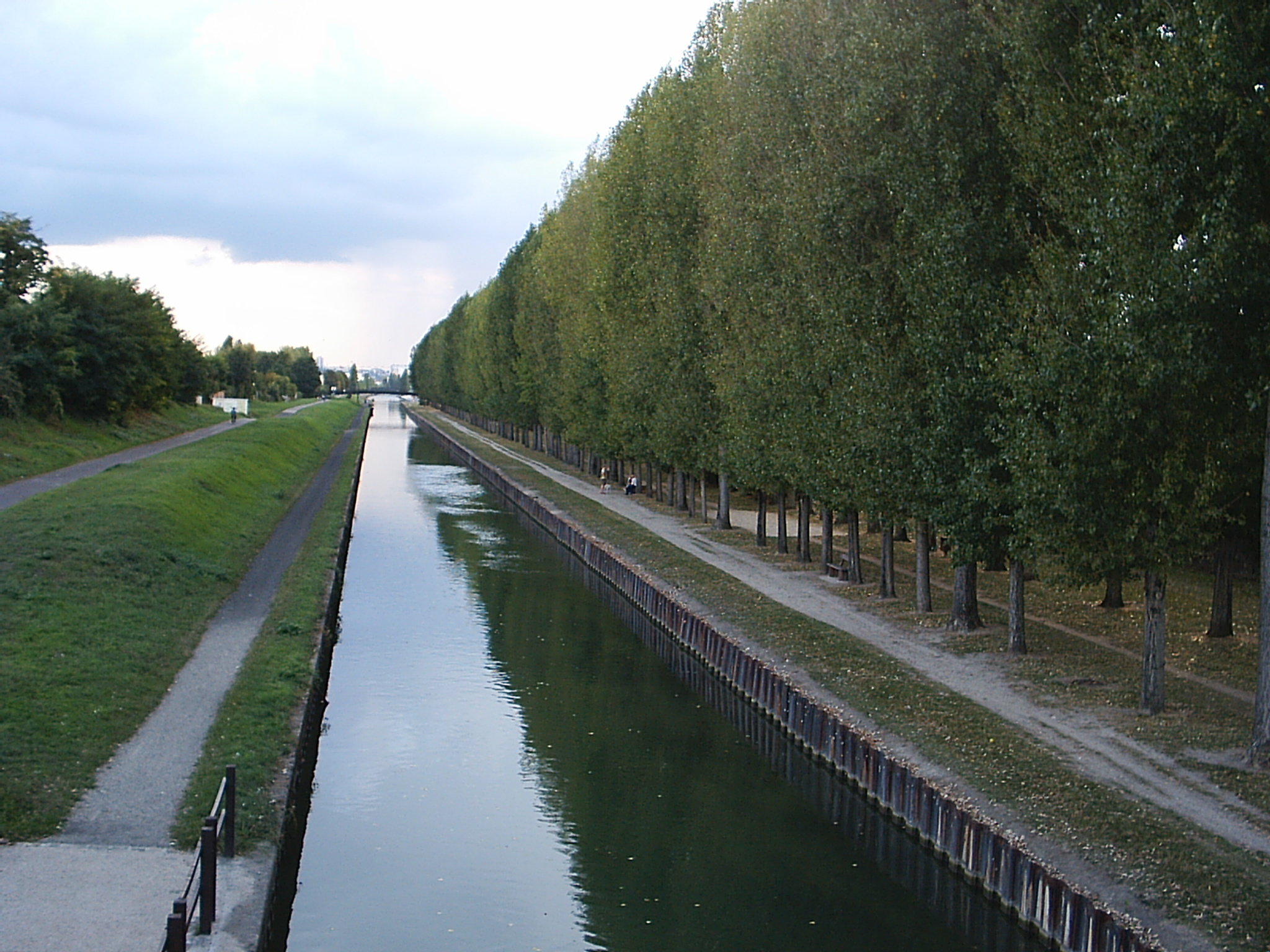 Canal de l'Ourcq in Aulnay-sous-Bois. Public domain.